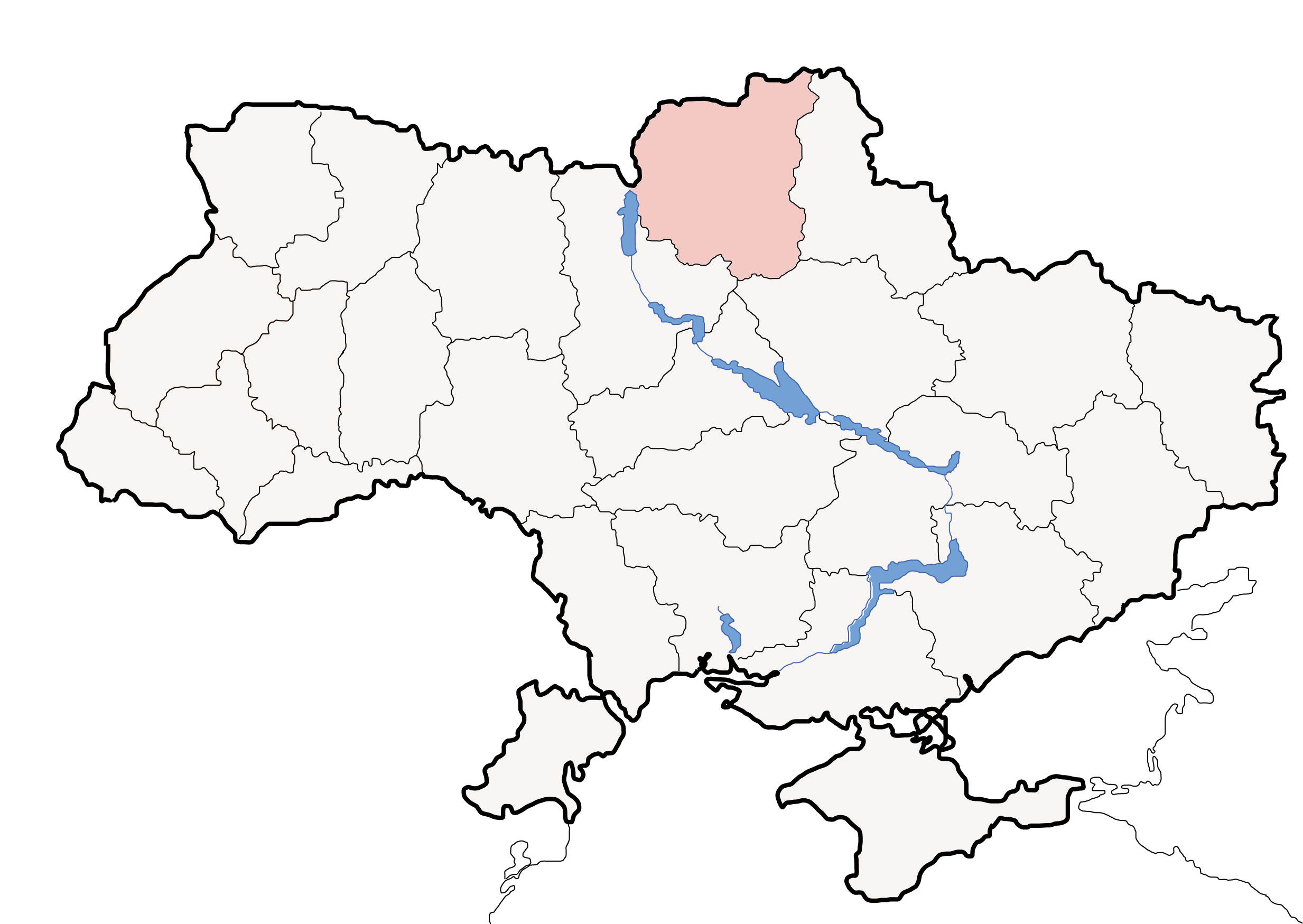 Political map of Ukraine, highlighting Chernihiv Oblast